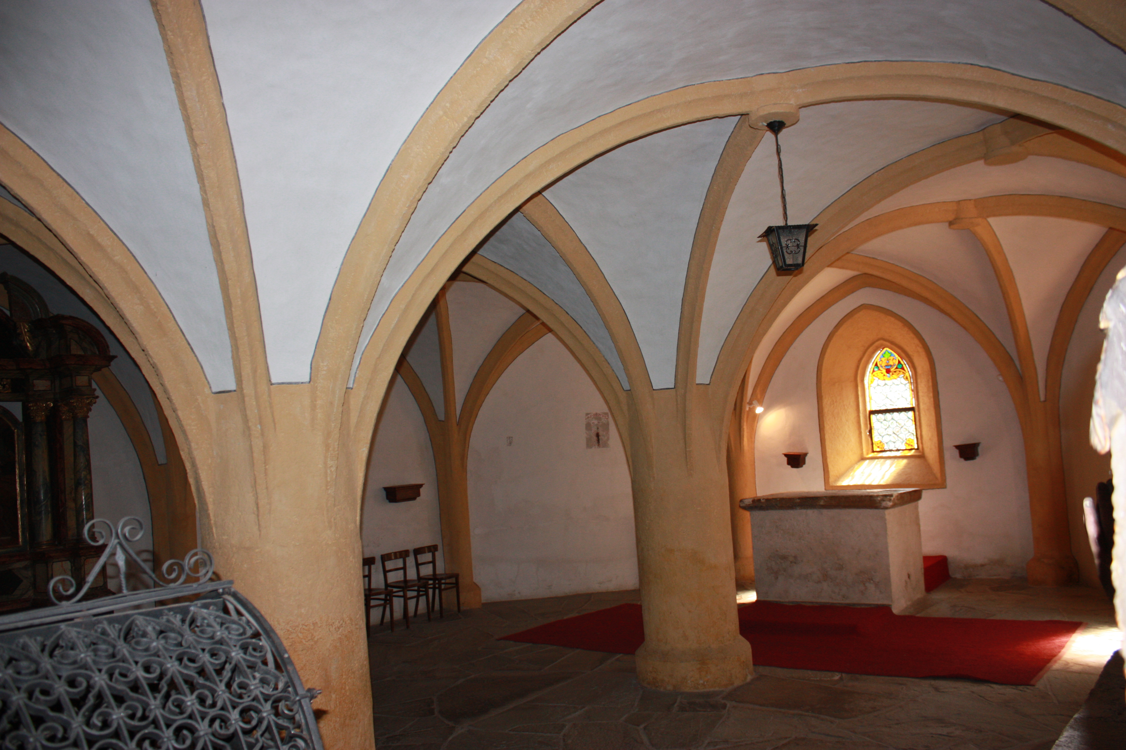 Parish church Saint Vinzenz - Lower church Locality: Heiligenblut Community:Heiligenblut